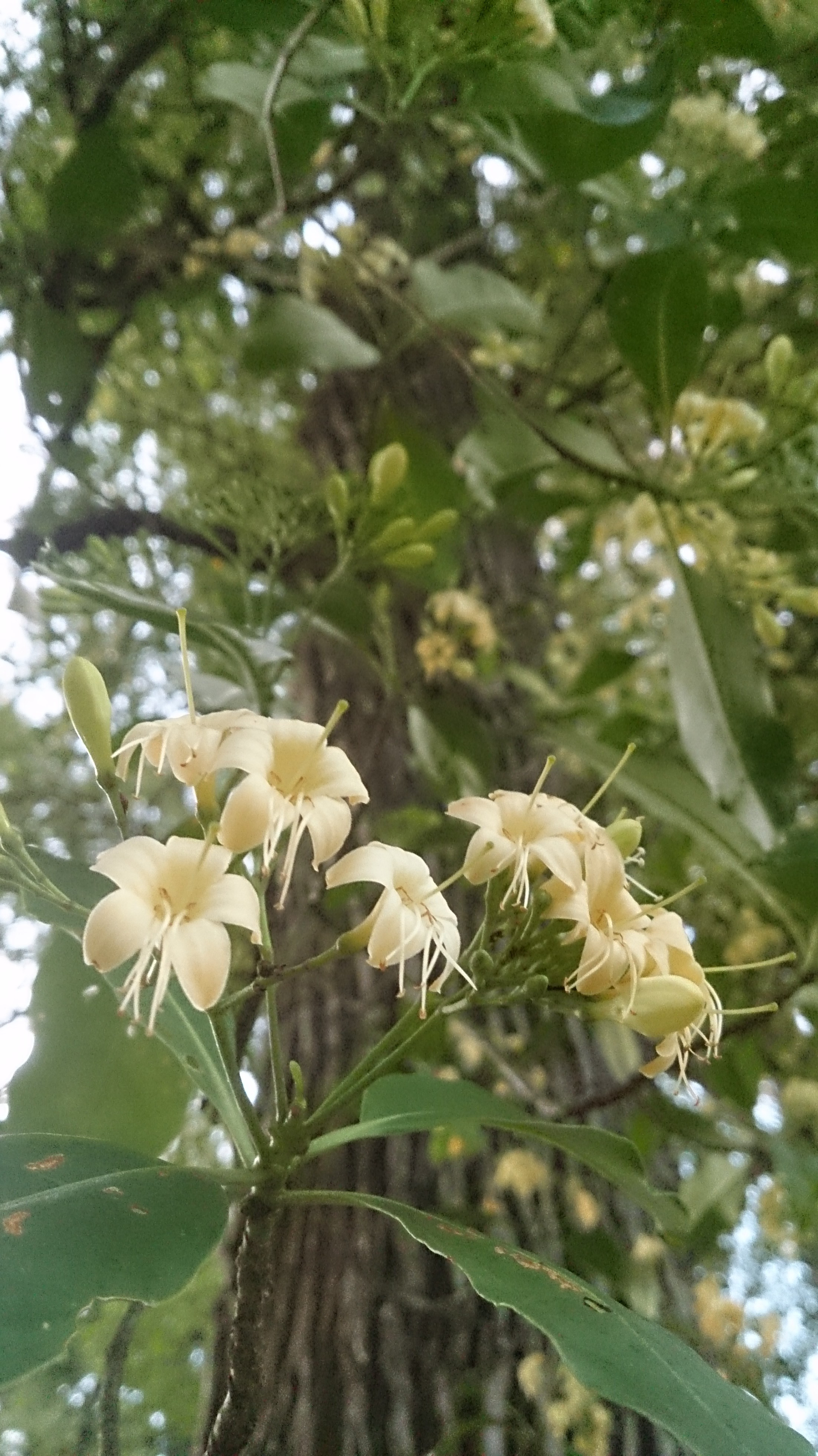 Cyrtophyllum fragrans. Common name: Tembusu.